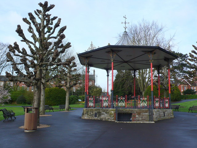 Borough Gardens Bandstand, Dorchester The bandstand in the centre of the Borough Gardens is frequently used in the summer months for the presentation of musical performances